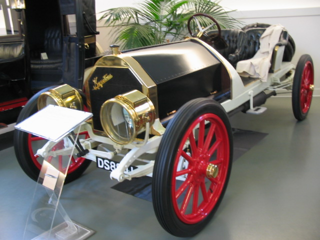 Image of a Keystone on museum display taken by me in July of 2004.